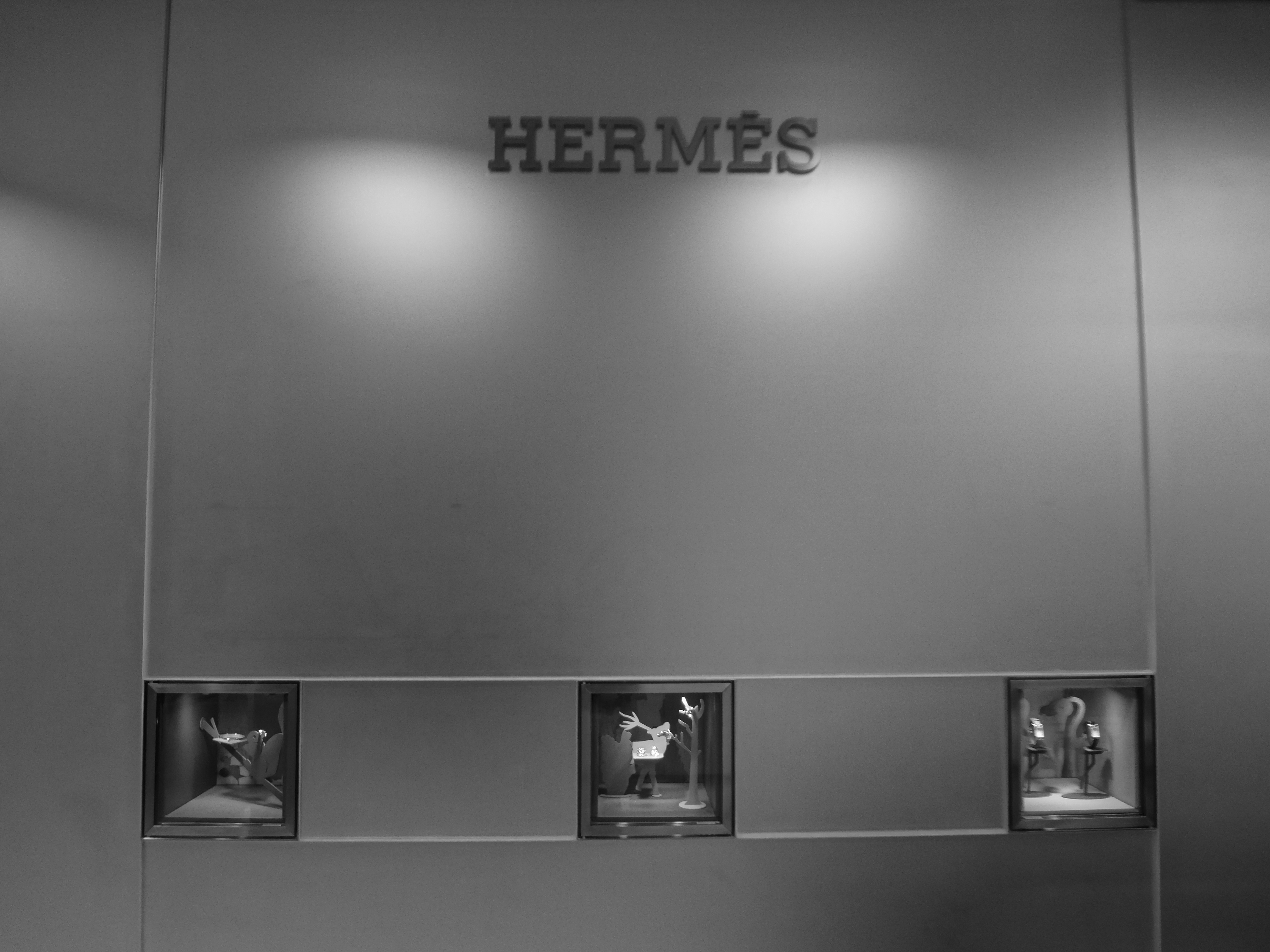 Spain España Hermès Madrid, Hermès Photography by David Adam Kess